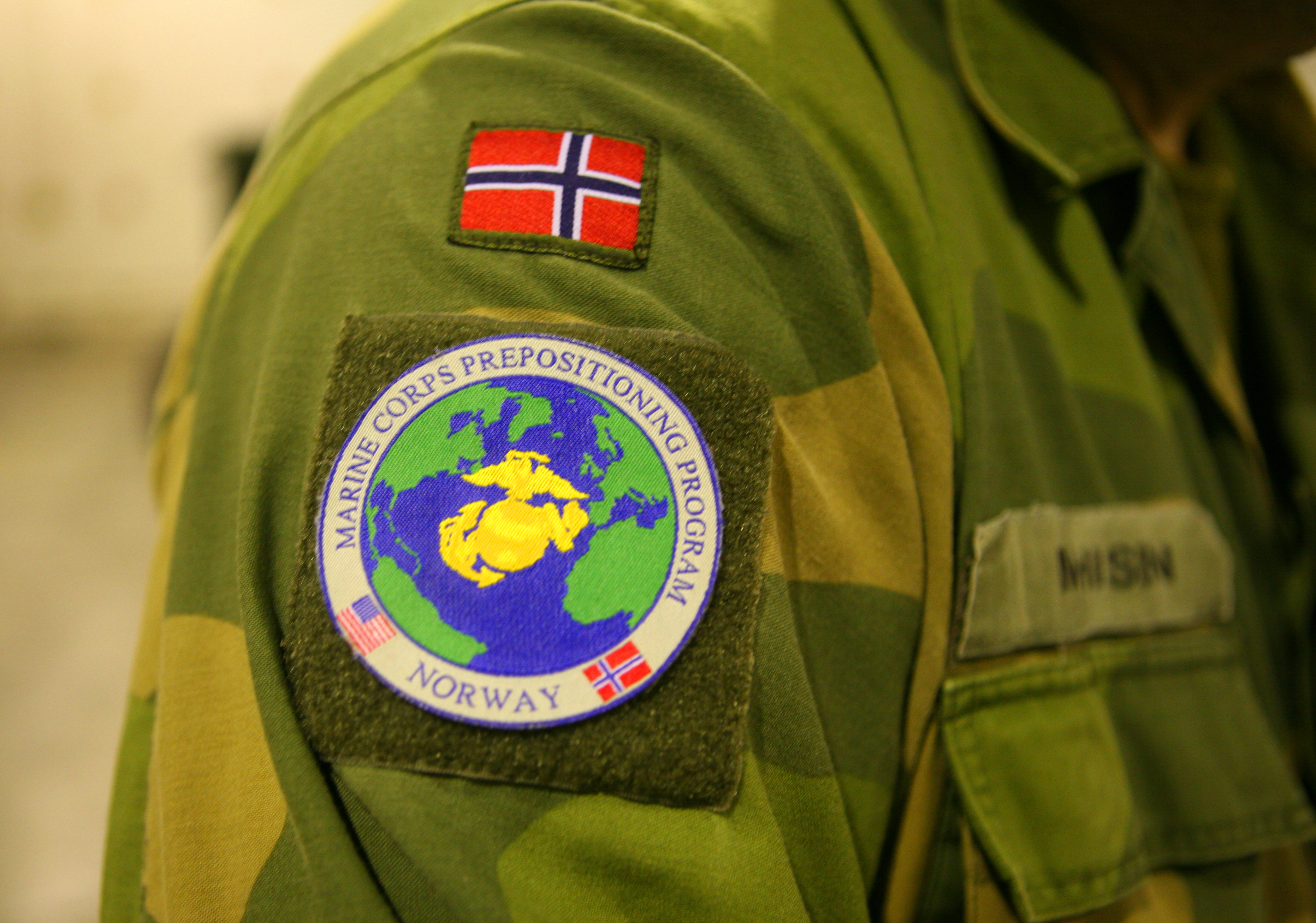 Maj. Kjell Mathisen, Norwegian Defense Logistics Organization/Marine Expeditionary Brigade, executive officer, proudly wears his Marine Corps Prepositioning Program in Norway patch at the Vaernes International Airport, Nov. 14. Marines from MFE and Norwegian soldiers with MCPP-N, would later load more than 28,000 pounds, comprised of 110 cold weather tents, space heaters and fuel cans to be flown to Erzurum, Turkey, to help provide shelter and warmth to more than 1,000 Turkish citizens left homeless by recent earthquakes. “For this joint partnership to be effective, it is important for us to be like a family. While we are normally closed on the weekends, to help the Turkish, we pulled the trigger and everyone was on deck to help,” added Mathisen